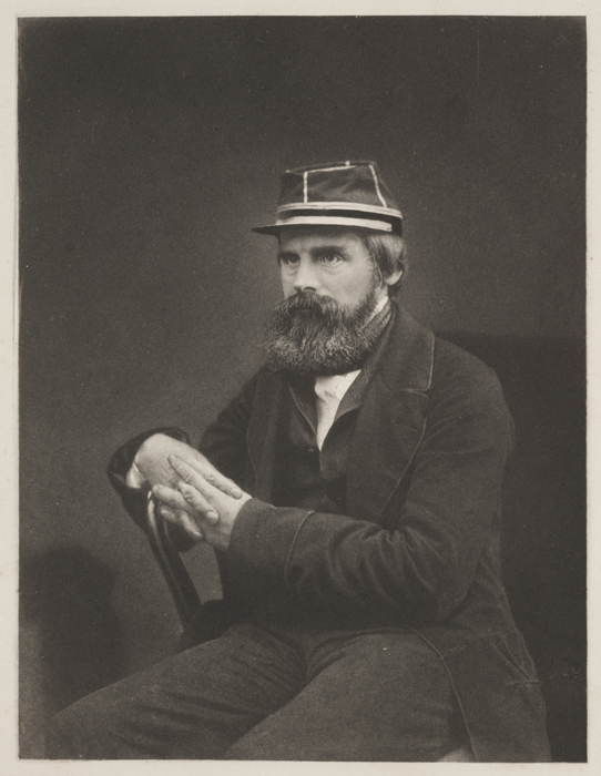 Creator: Unknown Date: c. 1860 Format: Photograph; collotype Material: Paper (fibre product) Collection: The Royal Photographic Society Collection at the National Media Museum Inventory no: 2003-5001/2/22878 Blog post: Snappy 5th birthday Flickr Commons Roger Fenton was born in Bury. He studied and practiced law but an inheritance gave him the independent means to pursue his interest in art and he took up photography in 1852. Fenton was a founding member of the (Royal) Photographic Society and one of the most influential photographers of the 1850s. He is best known as one of the first war photographers, from his work in the Crimea in 1855. However, he also took many highly-regarded photographs of the Royal Family and the collections of the British Museum as well as many superb landscapes, architectural studies and still lifes. In 1862 he gave up photography without explanation, sold his cameras and negatives at auction, and returned to practicing law.